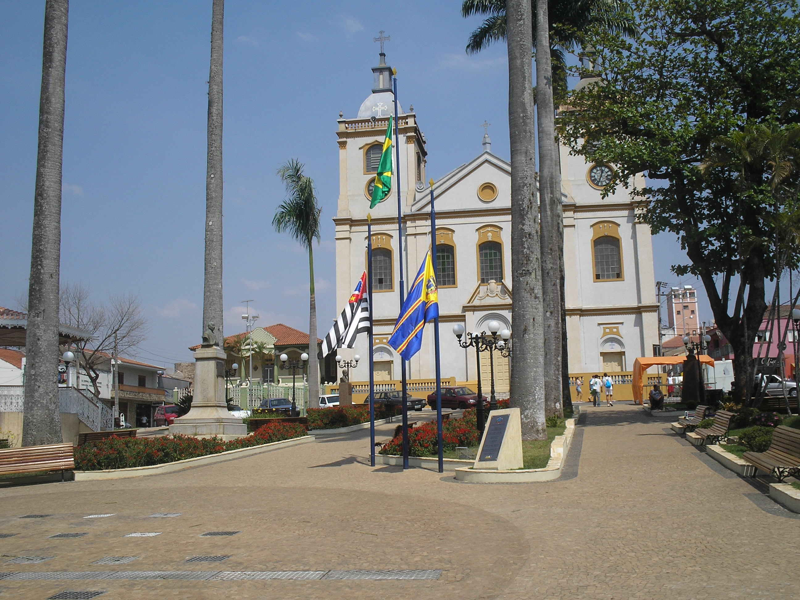 Praça Dr. José Sacramento e Silva (ou Praça da Matriz).